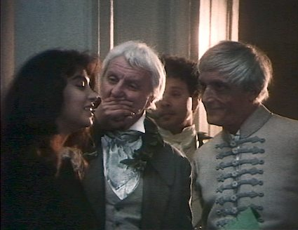 Psyche recites a poem in Bányácska